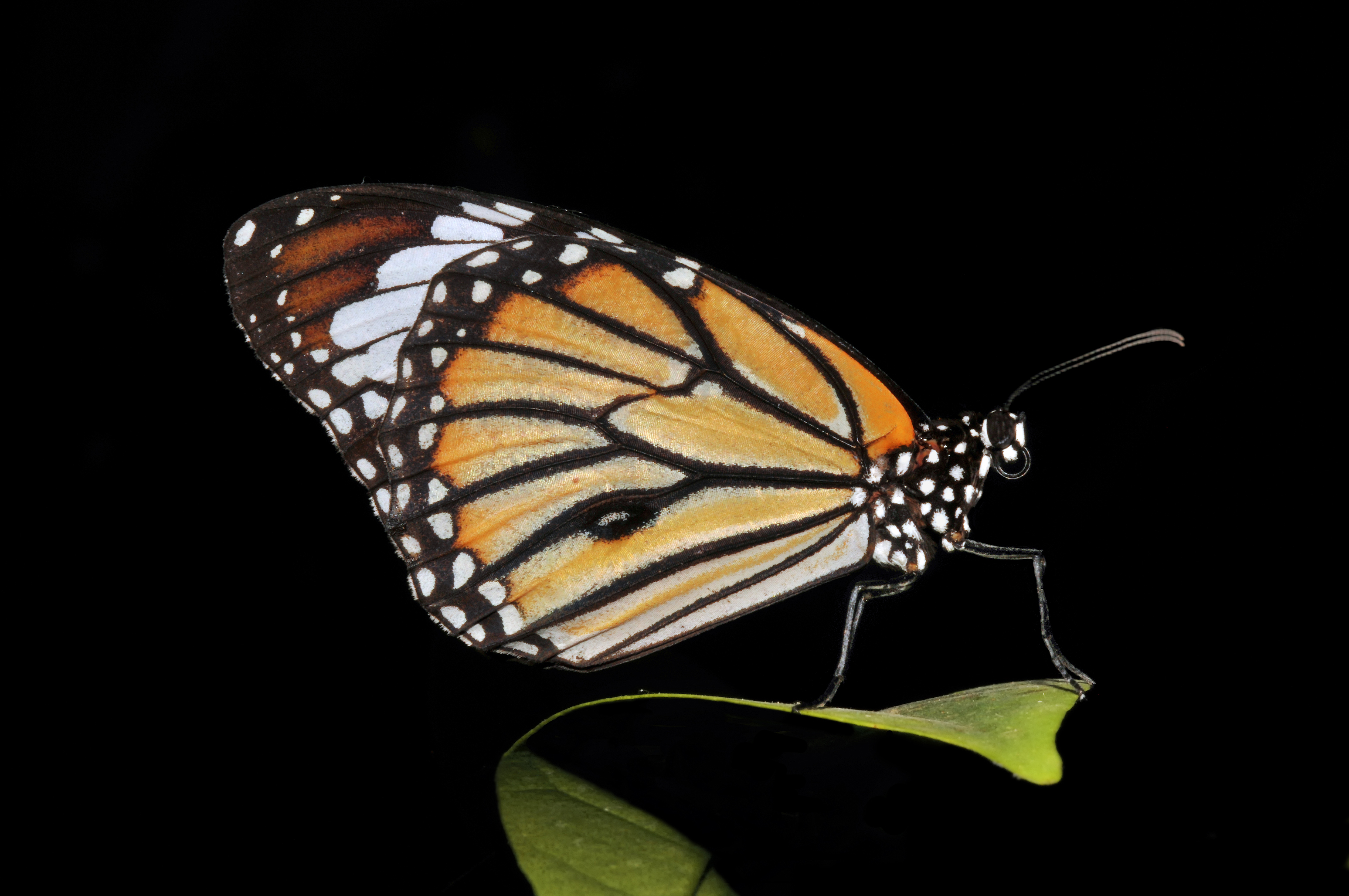 Danaus genutia also Common Tiger (dragonfly) and Striped Tiger at the Arthropodenzoo in the Zoo Schmiding in Schmiding near Bad Schallerbach, Austria.